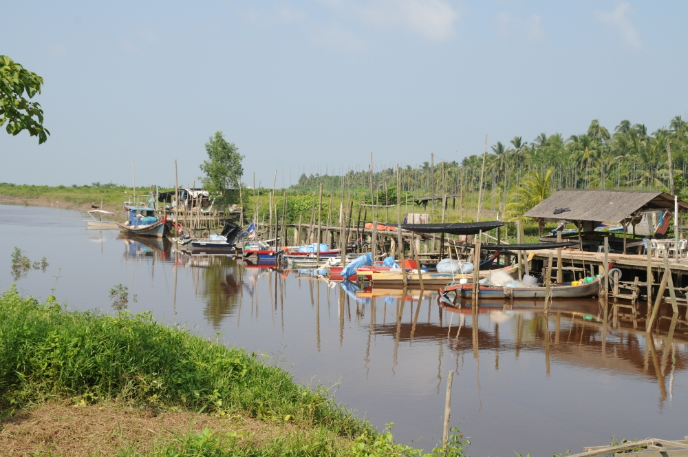 Rambah River at Pontian district, Johor, Malaysia